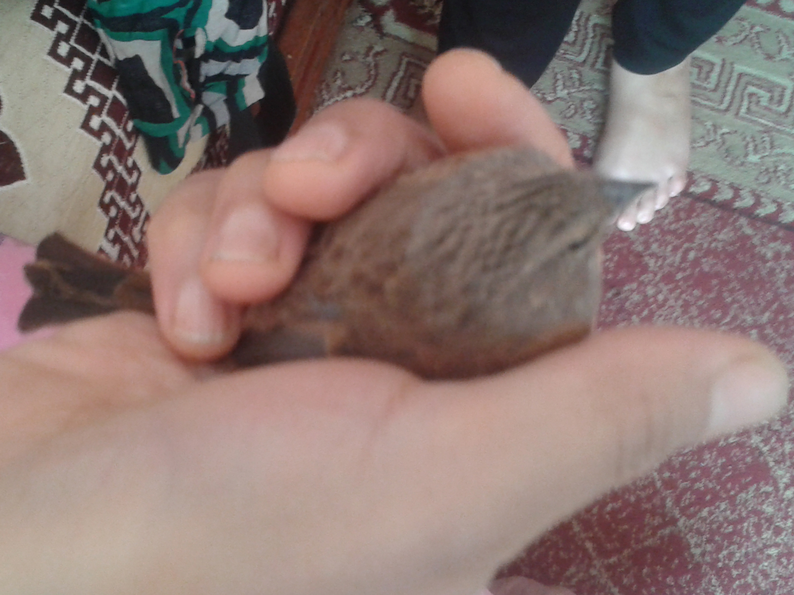 House Bunting Emberiza sahari, Casablanca, Morocco